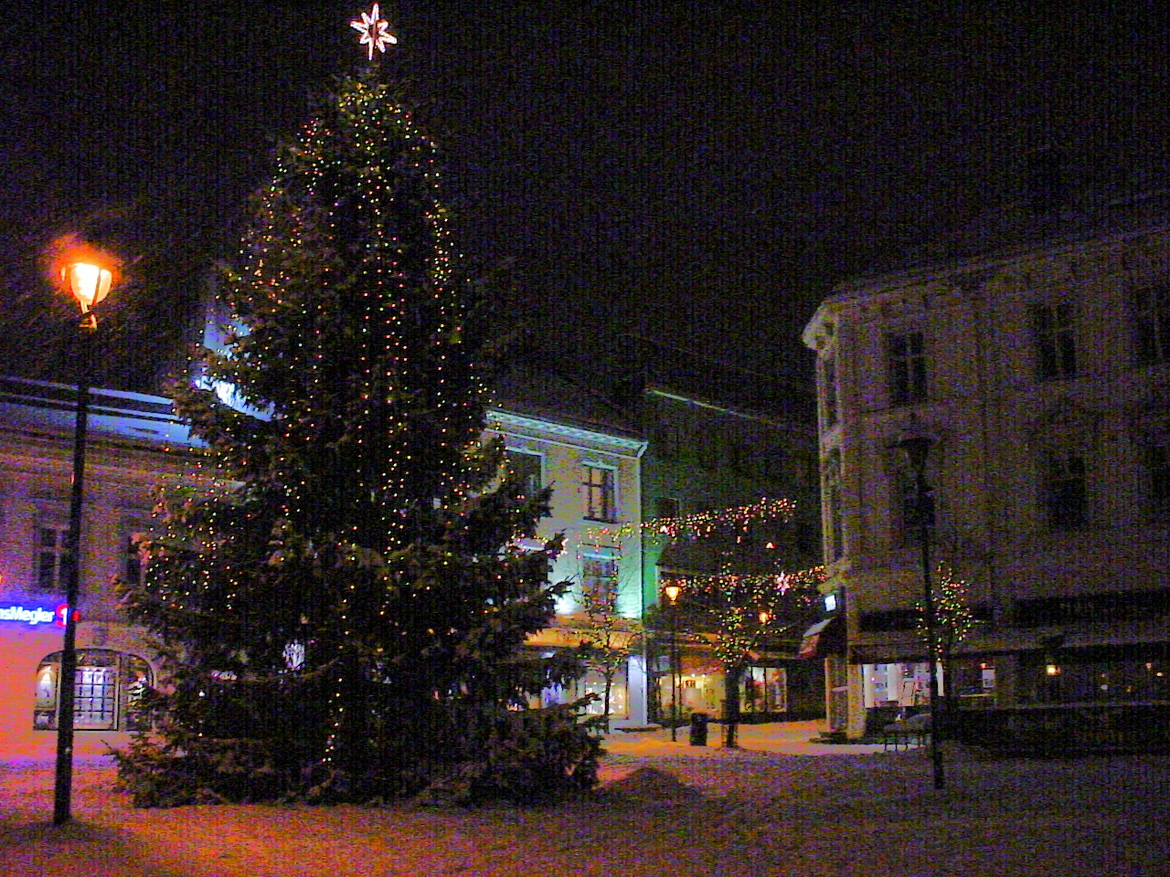 Christmas mood at the Southern Market (Søndre Torv) in Hønefoss, Norway